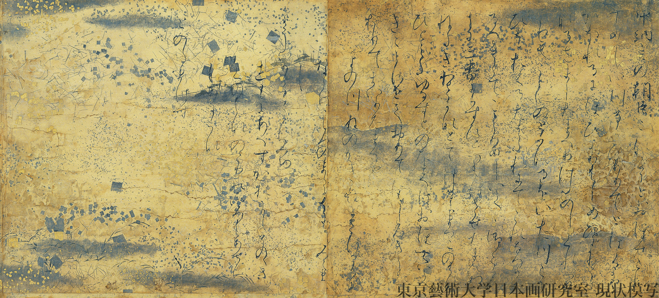 A Calligraphy of the Chapter "YADORIGI "(mistletoe) of Illustrated handscroll of Tale of Genji (written by MURASAKI SHIKIBU(11th cent.). Ink on Ornamented Paper(Colour Gold Foil, etc). The handscroll was made in about ACE1130 and stored in TOKUGAWA Museum, Japan. The handscroll were separated to each sections and mounted to frame for conservation.